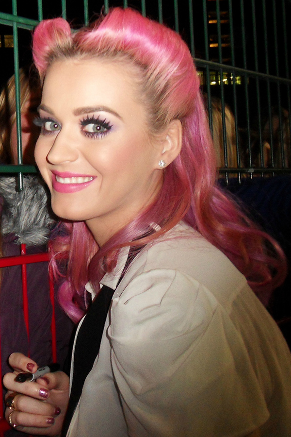 American pop singer-songwriter Katy Perry signing autographs for fans after X-Factor (October 16, 2011).